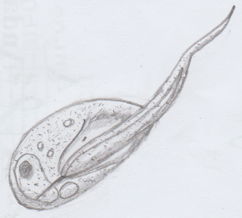 Apusomonas proboscidea draw